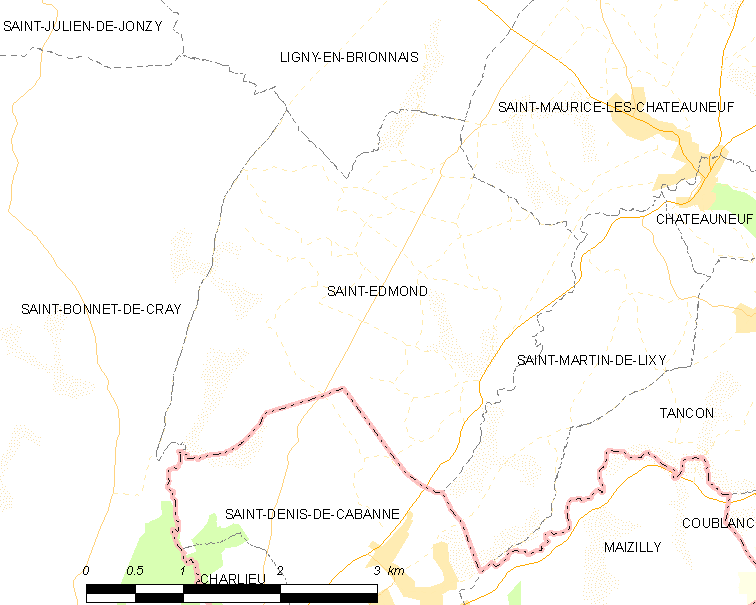 Map of French municipality